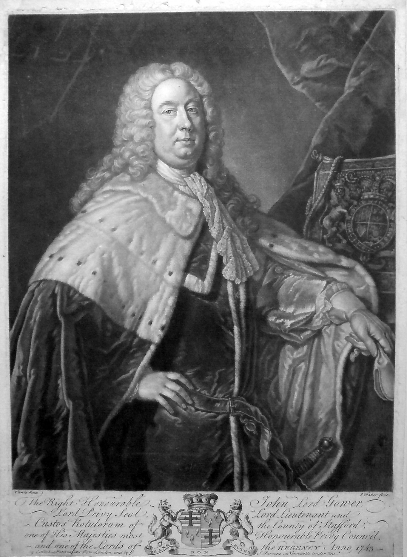 Portrait of John Leveson-Gower, 1st Earl Gower (1694-1754)